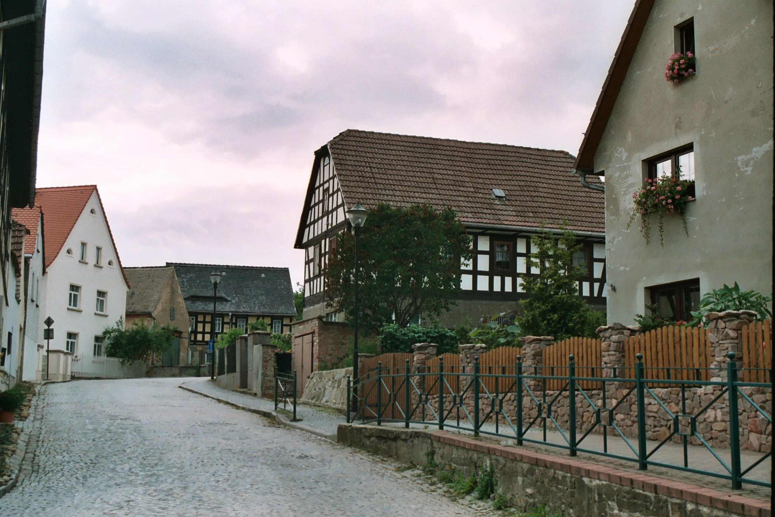 Dobitschen, the street "Bahnhofstraße"